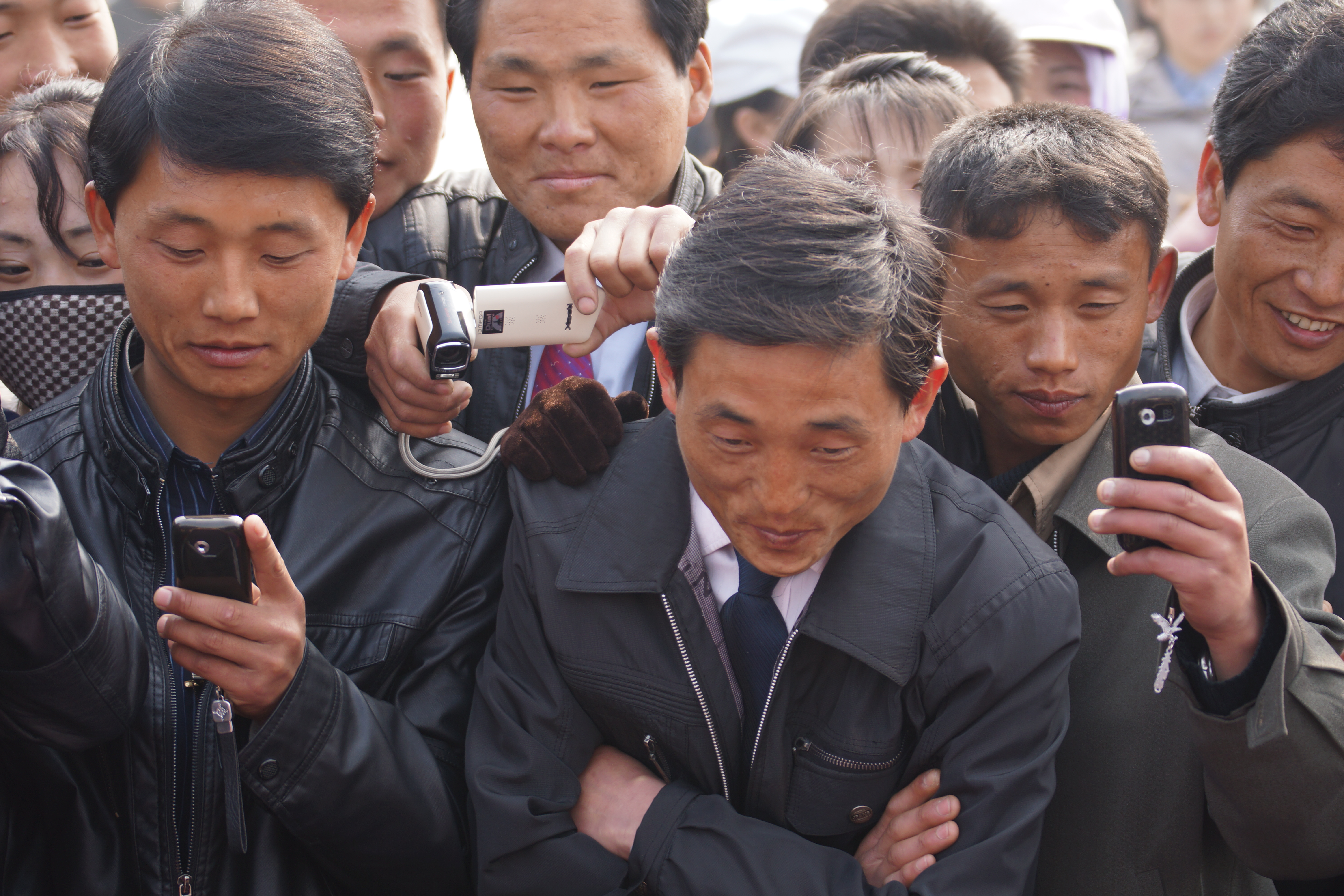 April 2012 trip to DPRK, North Korea for the 100th year birthday celebrations for Kim Il Sung - check out my North Korea blog at